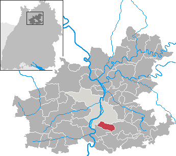 Map of Flein in the Landkreis (district) Heilbronn, Baden-Württemberg, Germany.